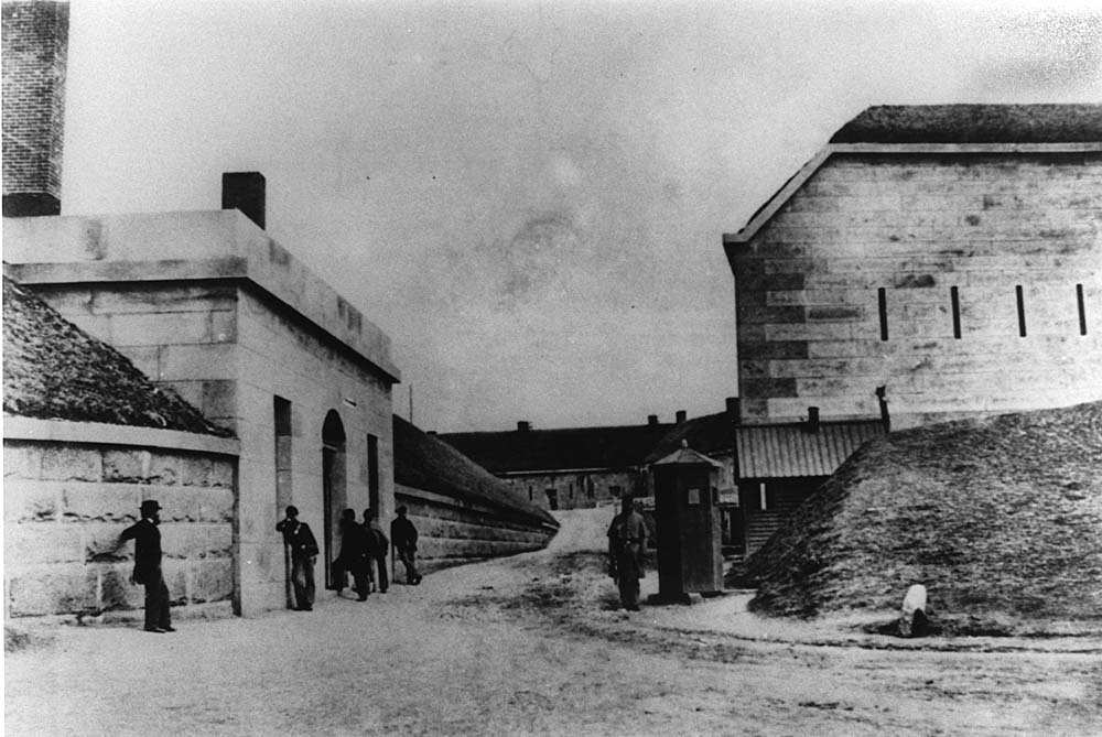 The guardhouse (left) and sentry box (on right) at the entrance to Fort Warren about 1861. This photo is in the public domain.